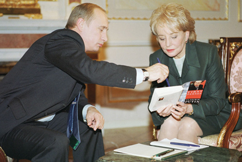 THE KREMLIN, MOSCOW. President Putin giving an interview to ABC (American Broadcasting Company). By request of ABC journalist Barbara Walters, President Putin signed his book, “First Person,” published in the US.